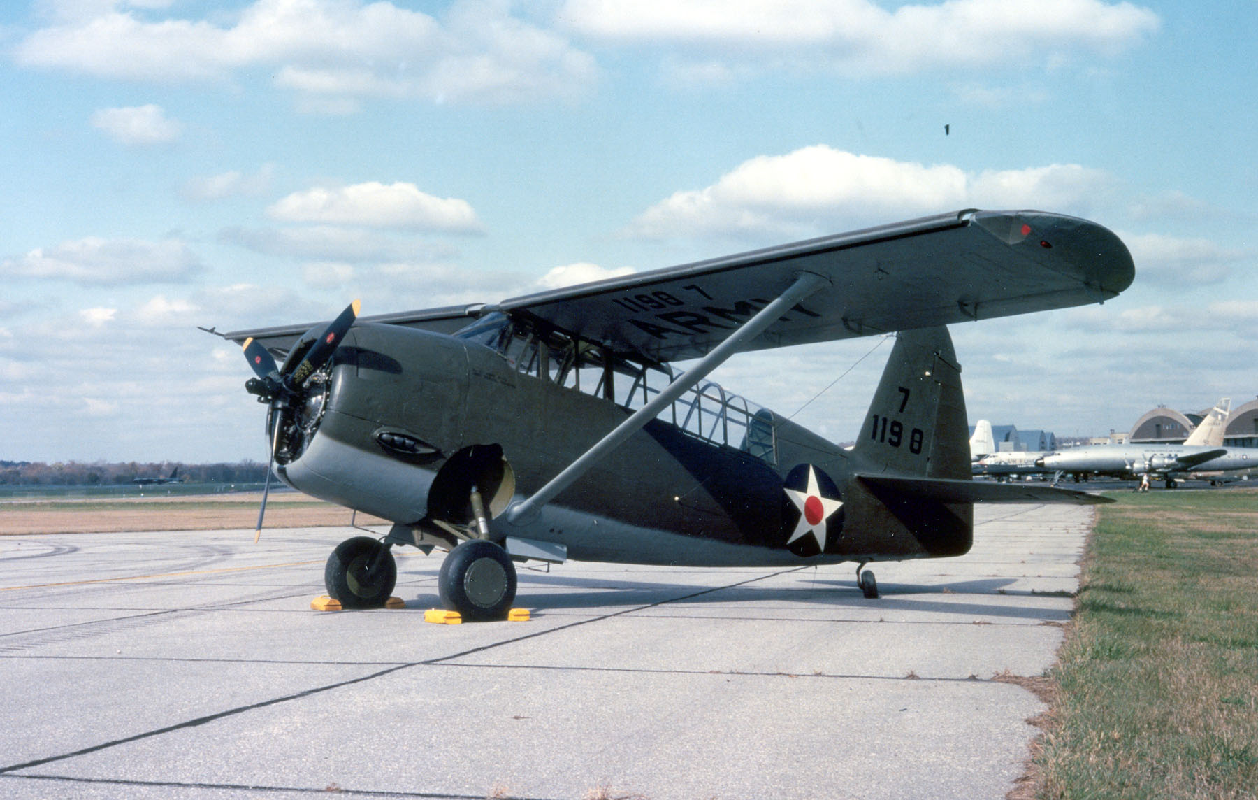 A U.S. Air Force Curtiss O-52 Owl at the National Museum of the United States Air Force, Dayton, Ohio (USA). In 1940 the U.S. Army Air Corps ordered 203 Curtiss O-52s for observation duties -- signified by the designation "O" -- and used them for military maneuvers within the continental United States. Upon America's entry into World War II, however, the U.S. Army Air Forces realized that the airplane lacked the performance necessary for combat operations overseas. As a result, the Army relegated the O-52 to stateside courier duties and short-range submarine patrols off the coasts of the United States. The O-52 was the last "O" type airplane procured in quantity for the Army. Following the attack on Pearl Harbor, the Army Air Forces cancelled the "O" designation and adopted "L" for the liaison type airplanes that replaced it. (Text: USAF Museum)